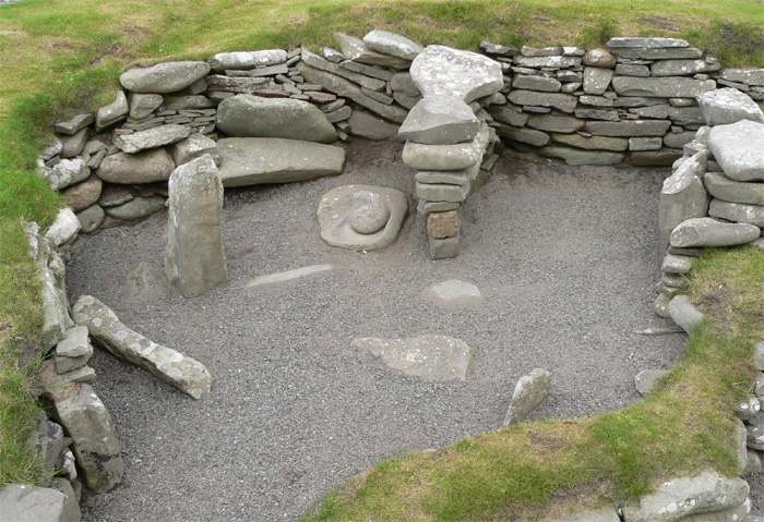 Jarlshof, Shetland, Scotland - bronze age house